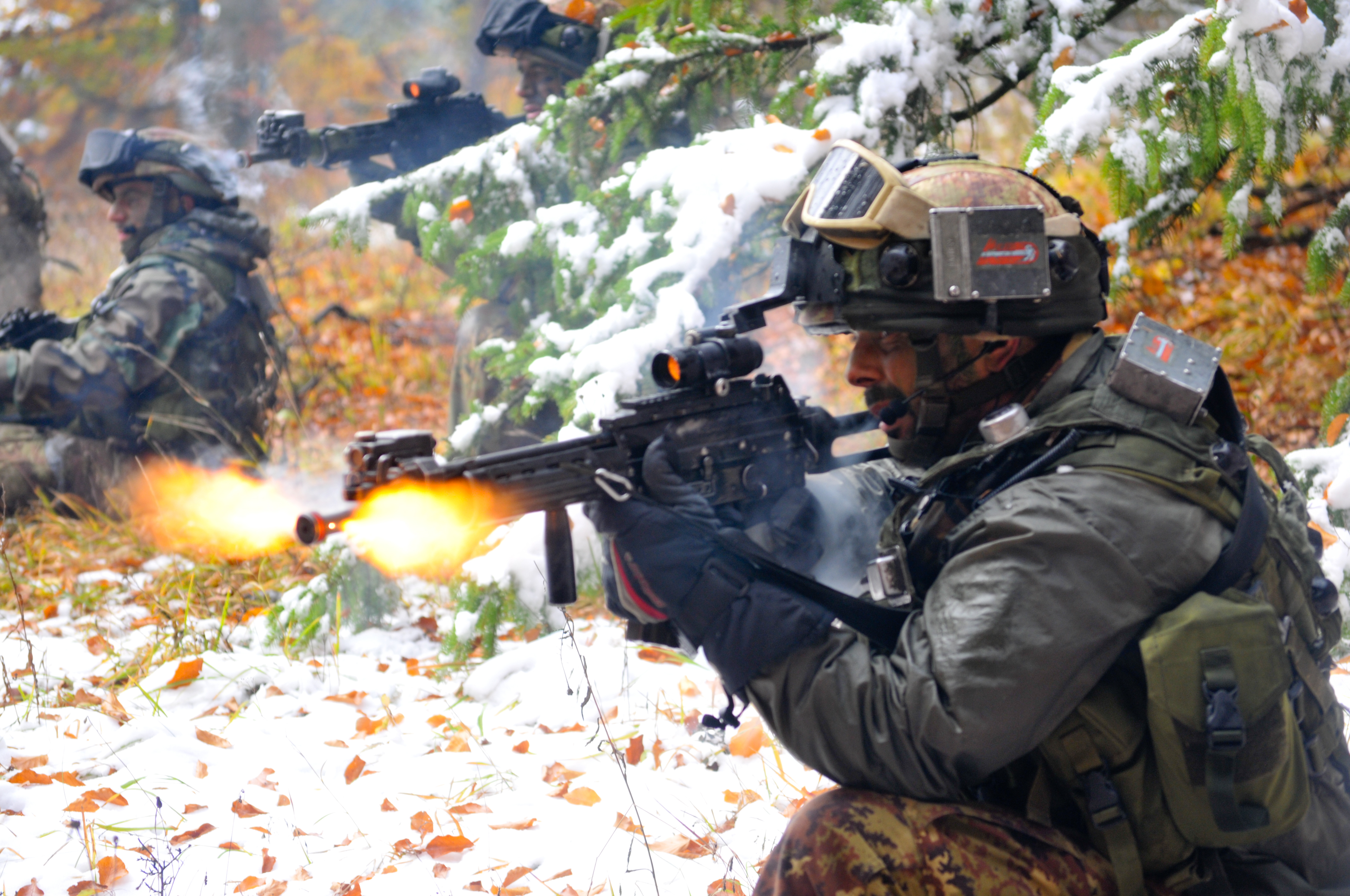 Italian soldiers of the 183rd Airborne Regiment fire SCP70 assault rifles at enemy combatants during a decisive action training environment exercise, Saber Junction 2012, at the Joint Multinational Readiness Center in Hohenfels, Germany, Oct. 28, 2012. Saber Junction 2012, the U.S. Army Europe's premier training event, is a large-scale, joint, multinational, military exercise involving thousands of personnel from 19 different nations and hundreds of military aircrafts and vehicles. It is the largest exercise of its kind that U.S. Army Europe has conducted in more than 20 years. (U.S. Army photo by Spc. Jordan Fuller/Released) Date Taken:10.28.2012 Location:HOHENFELS, BY, DE Read more